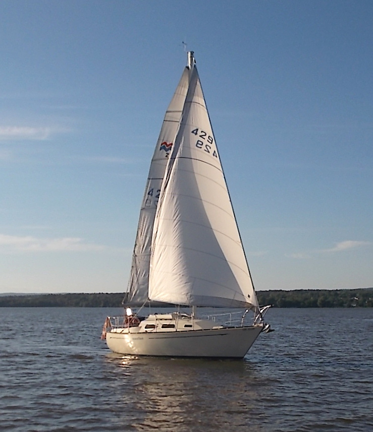 Mirage 27 sailboat Moonfleet on Lac Deschênes, part of the Ottawa River, Ottawa, Ontario, Canada